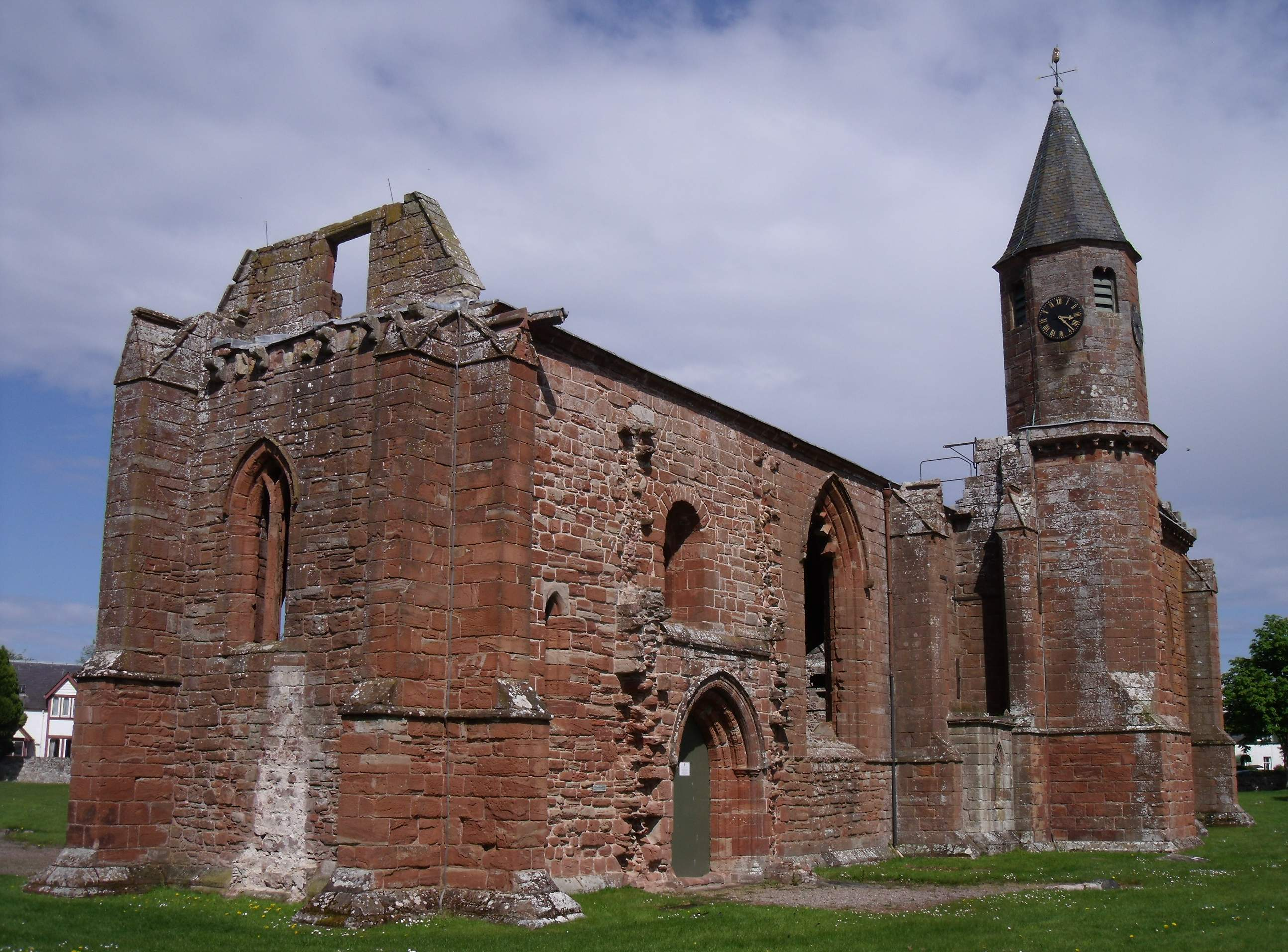 Fortrose (Scottish Gaelic: A' Chananaich) is a burgh in the Scottish Highlands, located on the Moray Firth, approximately ten kilometres north east of Inverness. The town is known for its ruined 13th century cathedral, and as the home of the Brahan Seer. In the Middle Ages it was the seat of the bishopric of Ross. The Cathedral was largely demolished in the mid-seventeenth century by Oliver Cromwell to provide building materials for a citadel at Inverness. The vaulted south aisle, with bell-tower, and a detached chapter house (used as the tollbooth of Fortrose after the Reformation) remain. These fragments, though modest in scale, display considerable architectural refinement, and are in the care of Historic Scotland Further information on the history of Fortrose can be found at